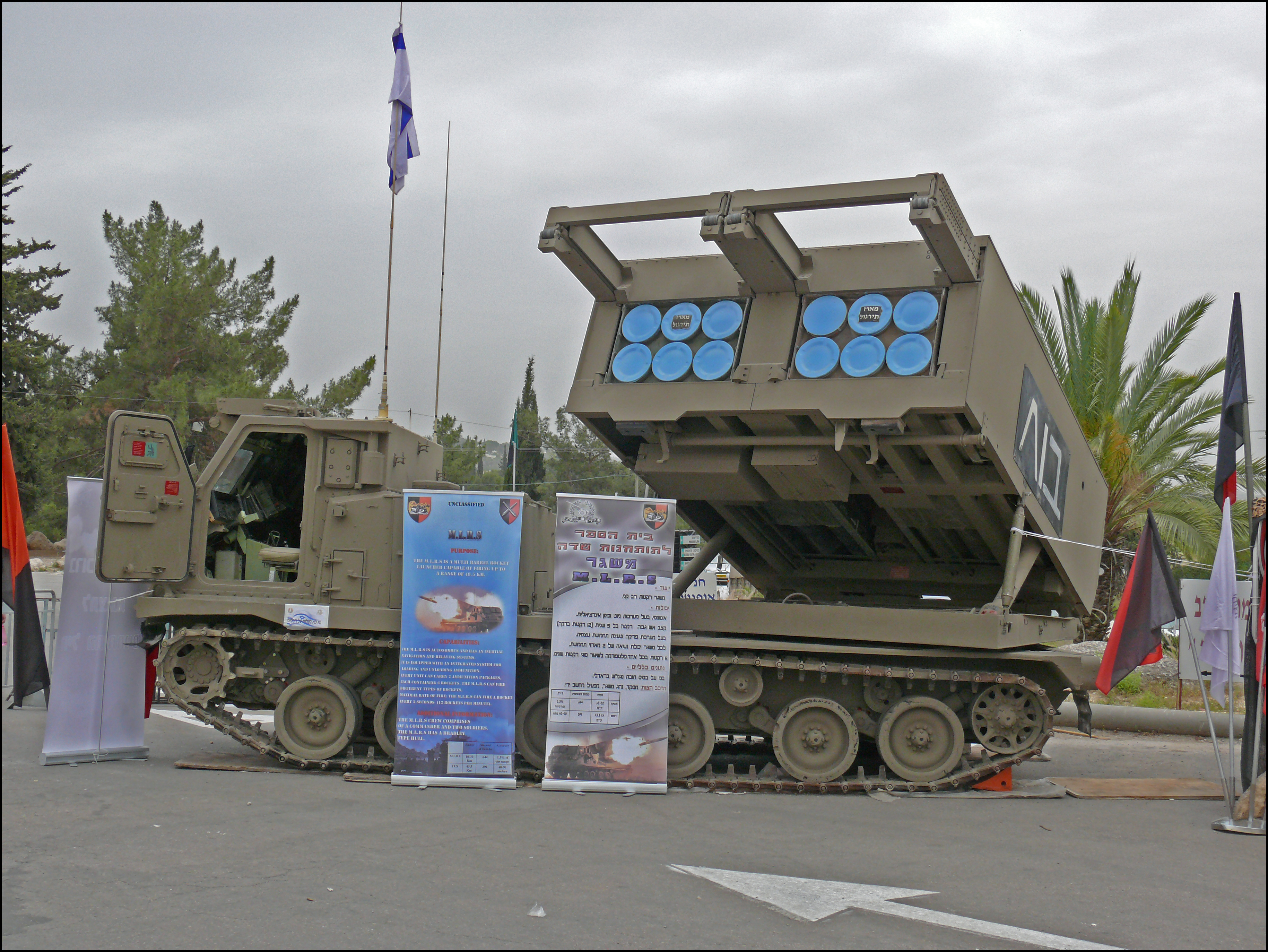 IDF Menatetz - M270 MLRS, Israel 66th Independence Day